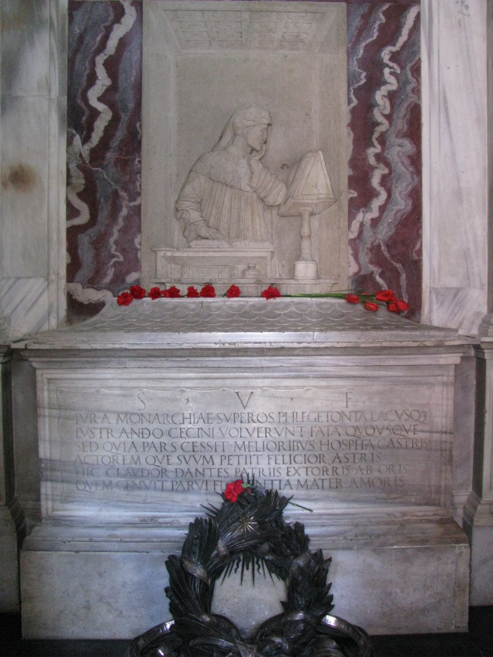 Tomba di Dante in Ravenna